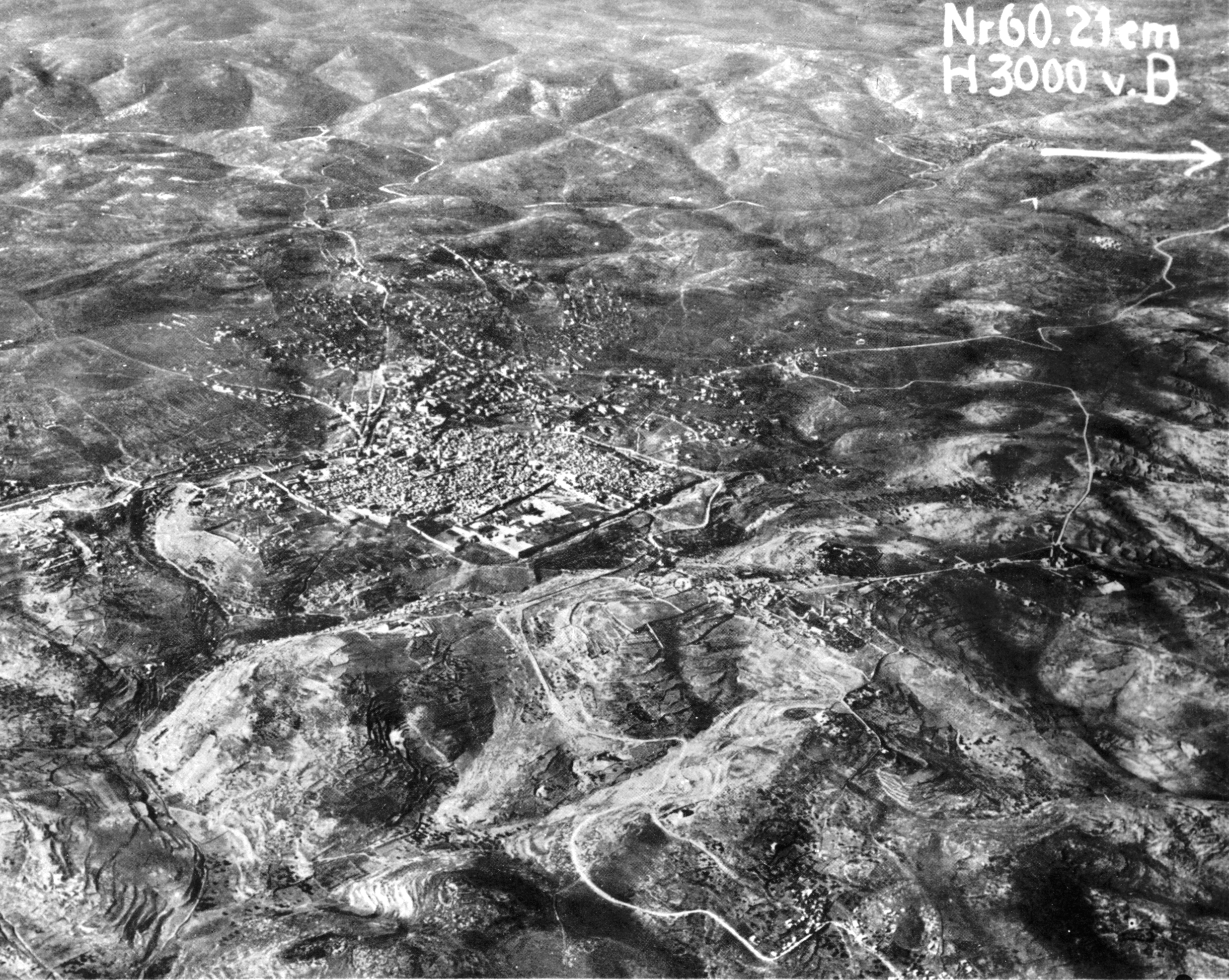 Aeroplane picture of Jerusalem & region round about, showing Olivet Range in foreground [ca. 1917], 1917. LC-DIG-ppmsca-13291-00010 (digital file from original, page 4, no. 10).